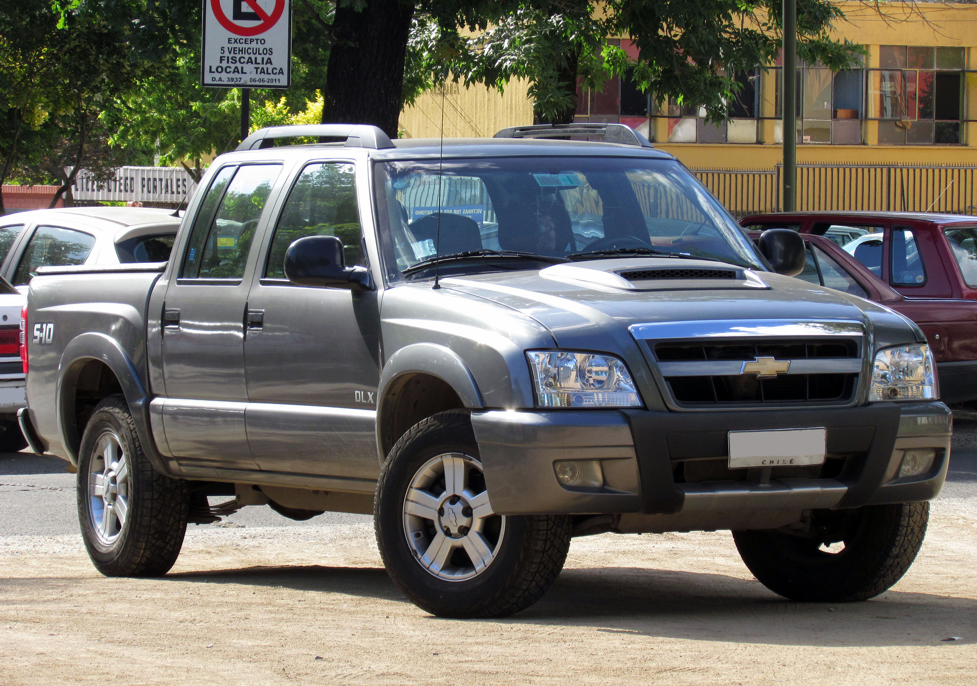 Chevrolet S-10 Apache DLX 2011